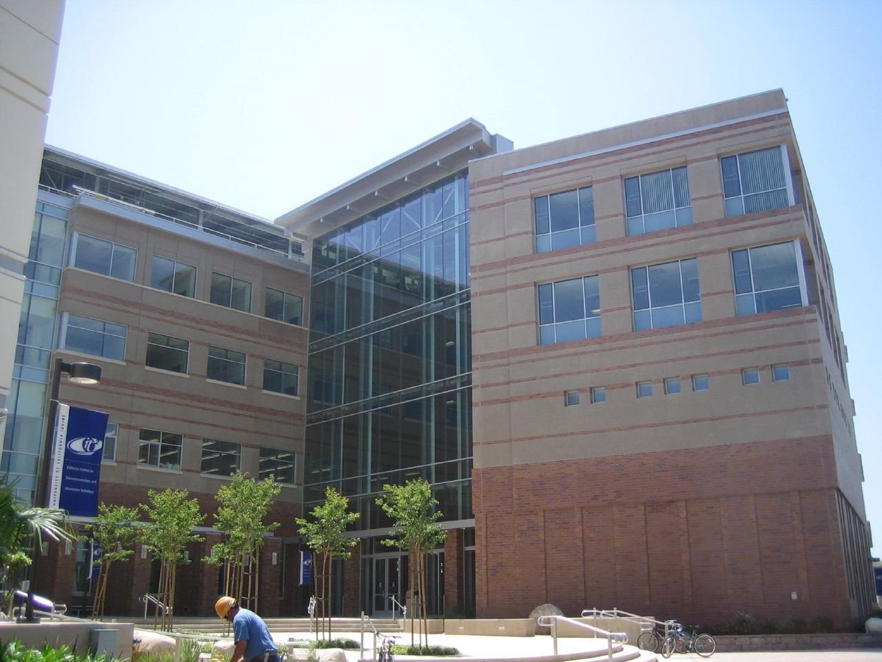 CalIT2